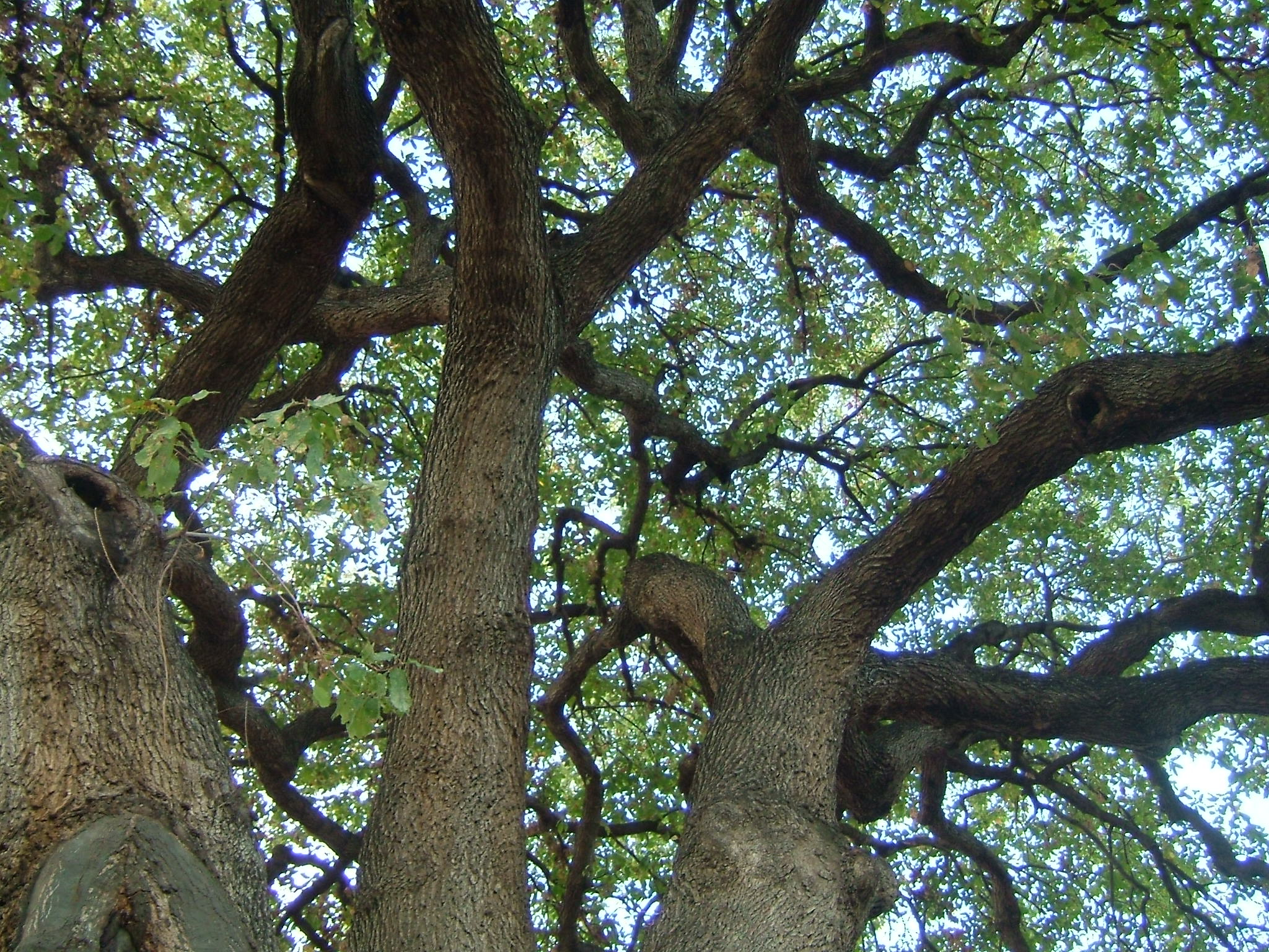 Quercus infectoria in Pafos, Cyprus